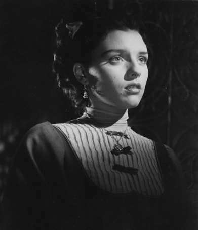 Norma Gimenez- actriz